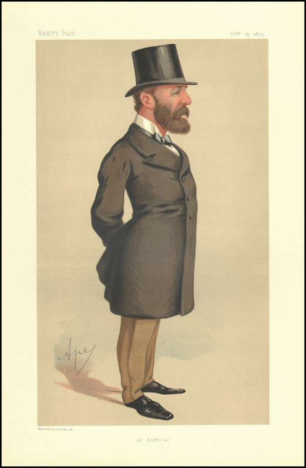 Caricature of Rear-Admiral Lord John Hay GCB (1827-1916).